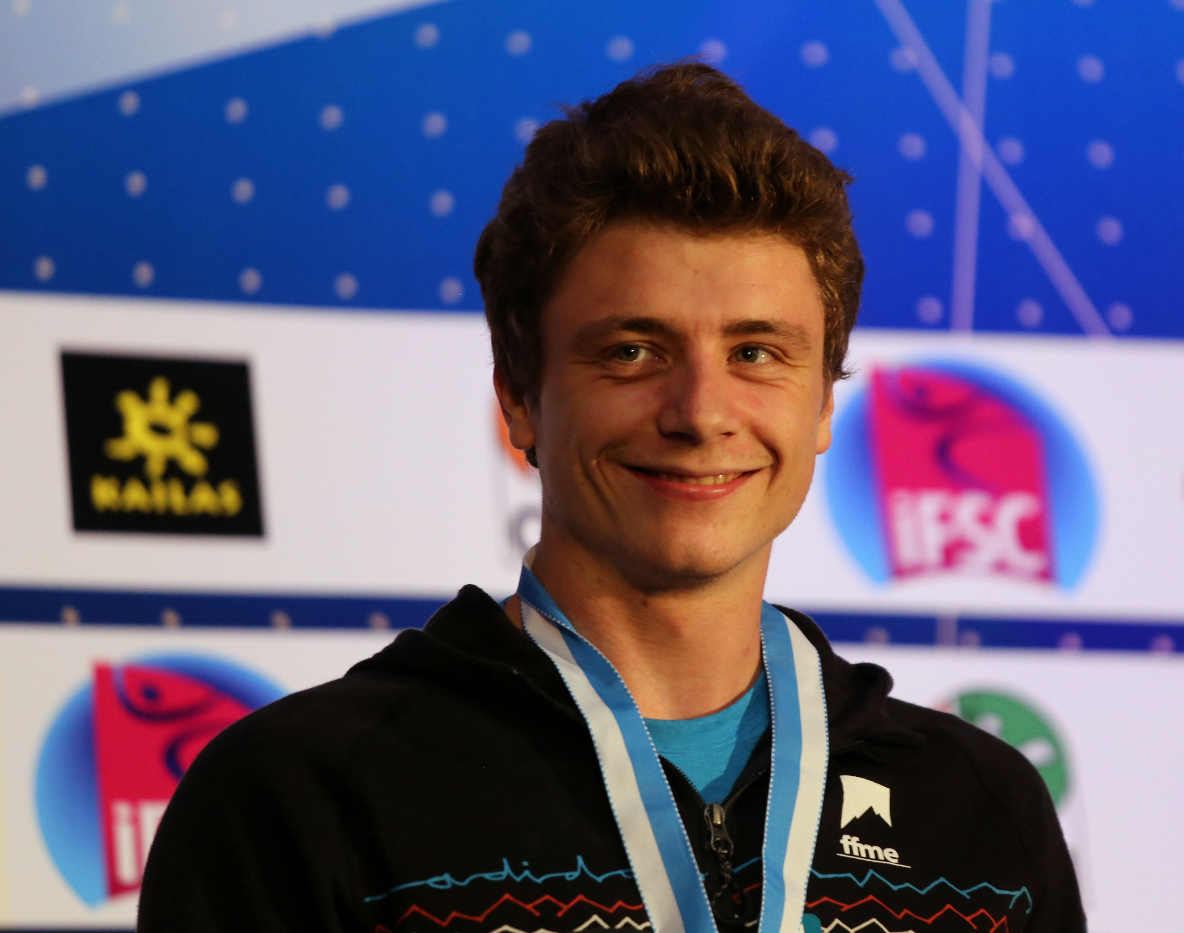 Gautier Supper winner of World cup in Stavanger 2015 by brv.no